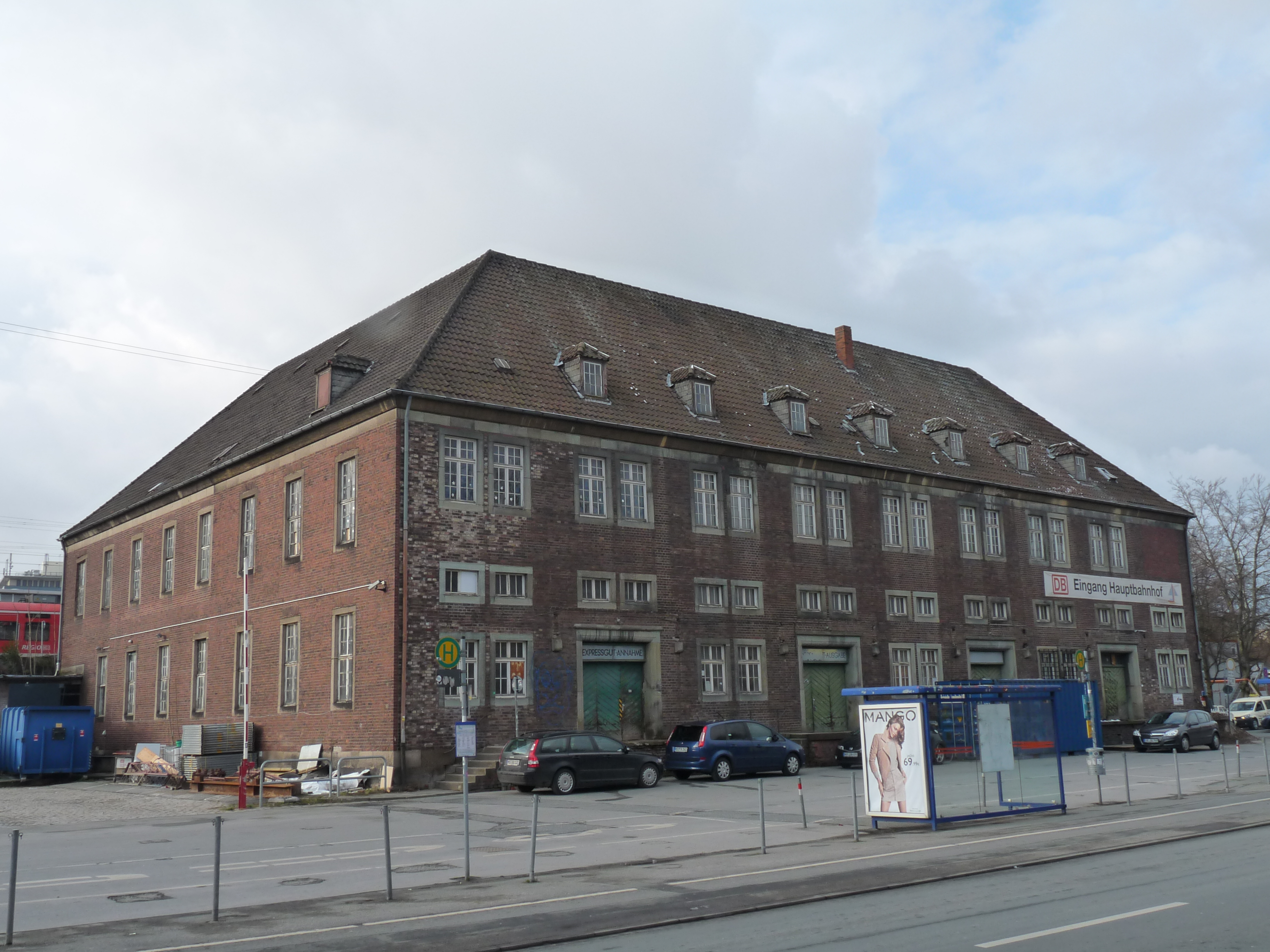 former baggage handling at Münster Central Station, Germany